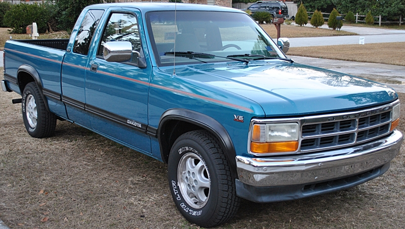 1994 Dodge Dakota SLT Club Cab